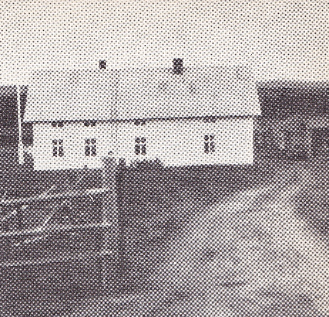 The Blue Farm, residence of Sigurd Siikavara, leader of the Korpela movement. Photo taken in the 1930's.